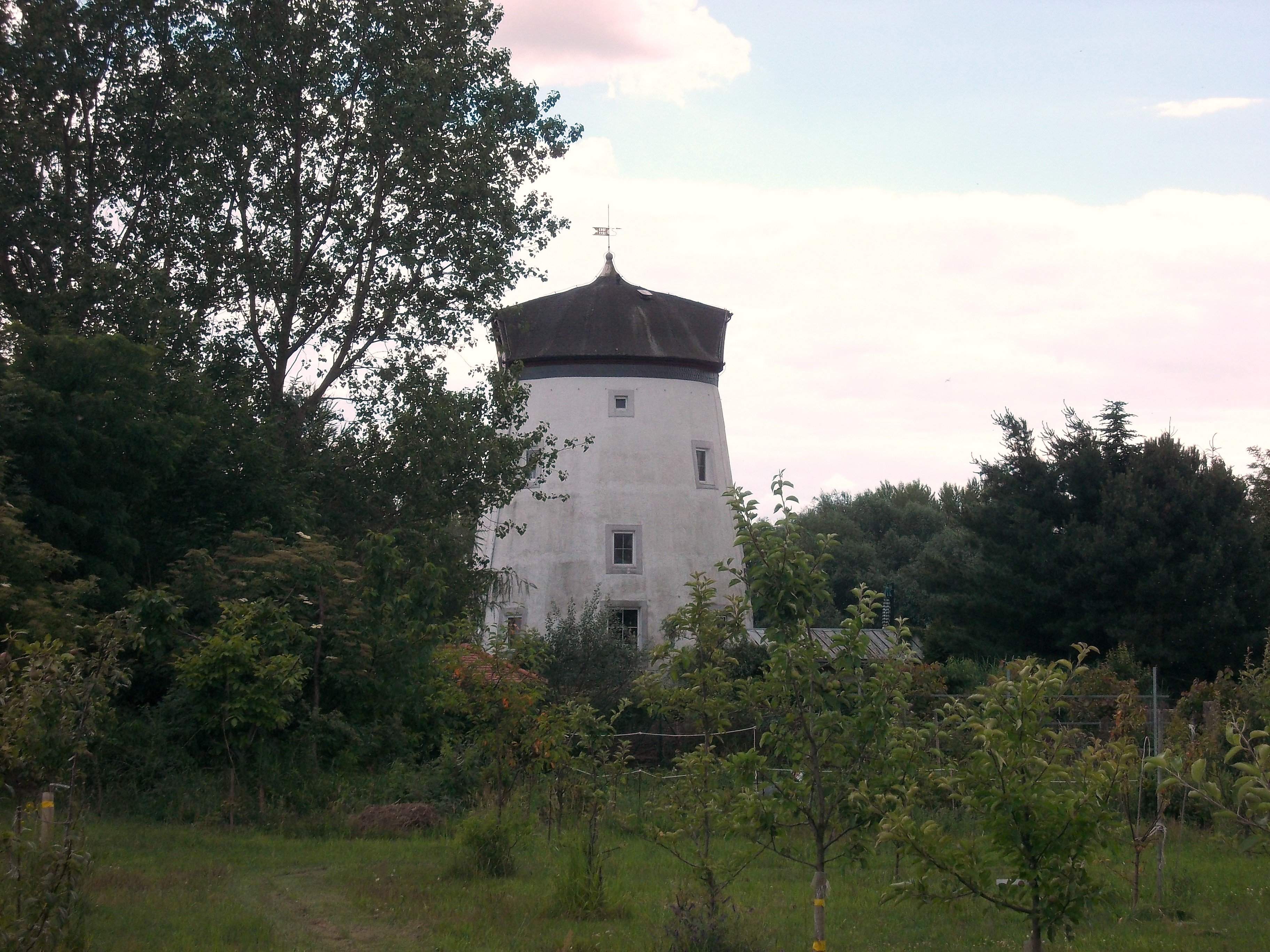 Grödel windmill (Nünchritz, Meissen district, Saxony)